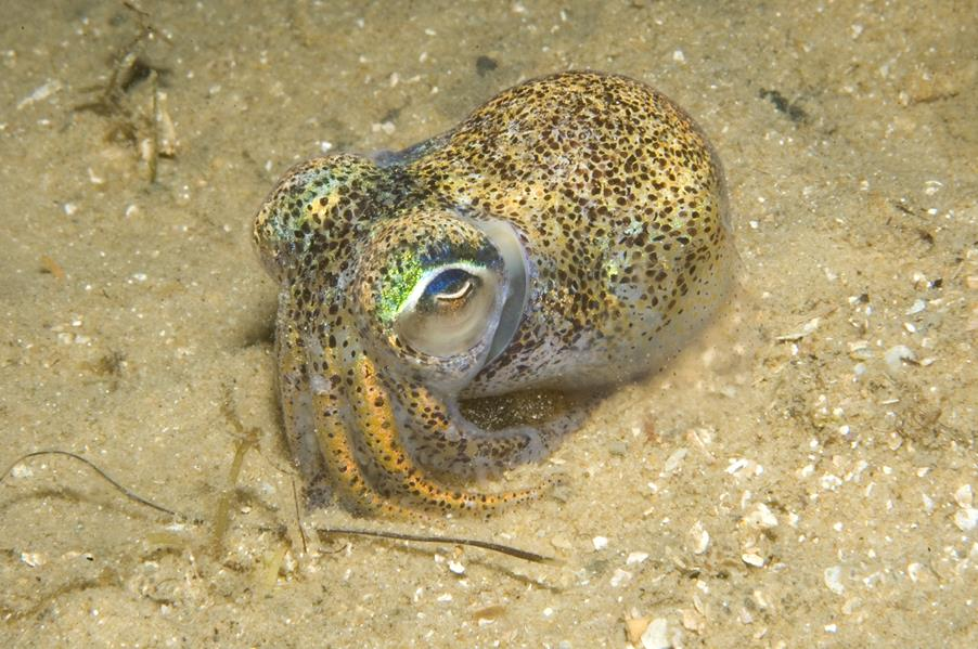 Euprymna tasmanica over sand